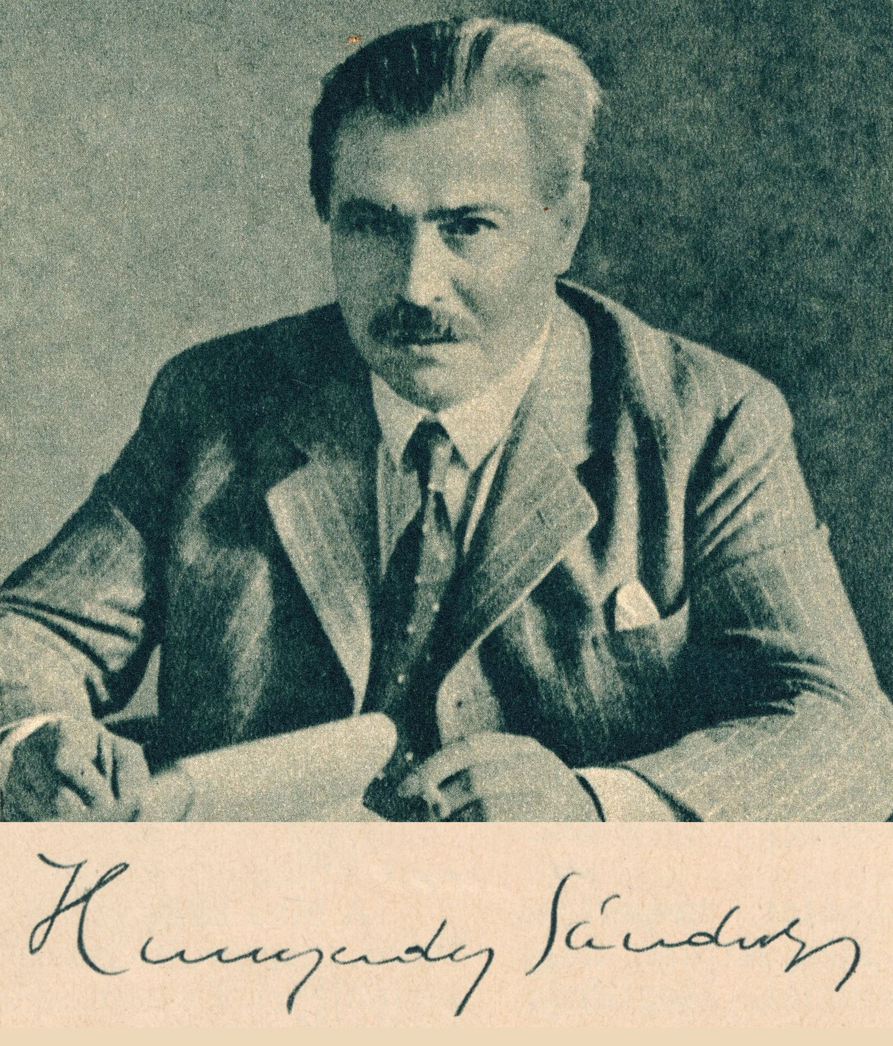 Sándor Hunyady - Hungarian Writer